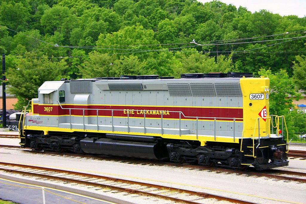 Erie Lackawanna Railway Classic SD45 Beautifully repainted to its original colors / St.Louis Museum of Transportation